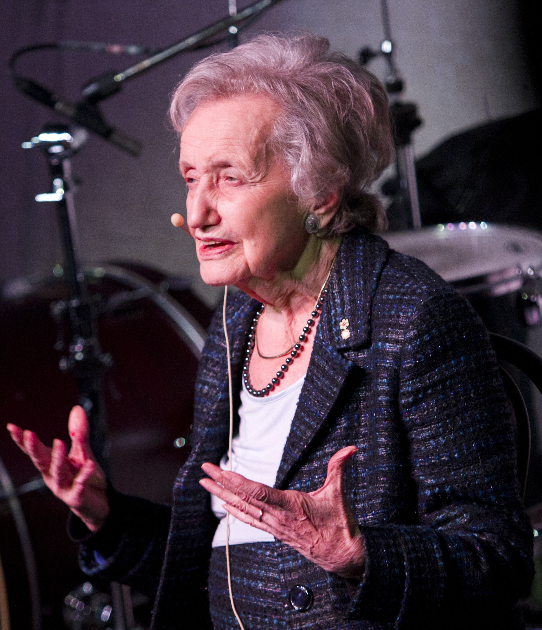 Neuropsychologist Brenda Milner at TEDxMcGill, 2011. Photo by Eva Blue